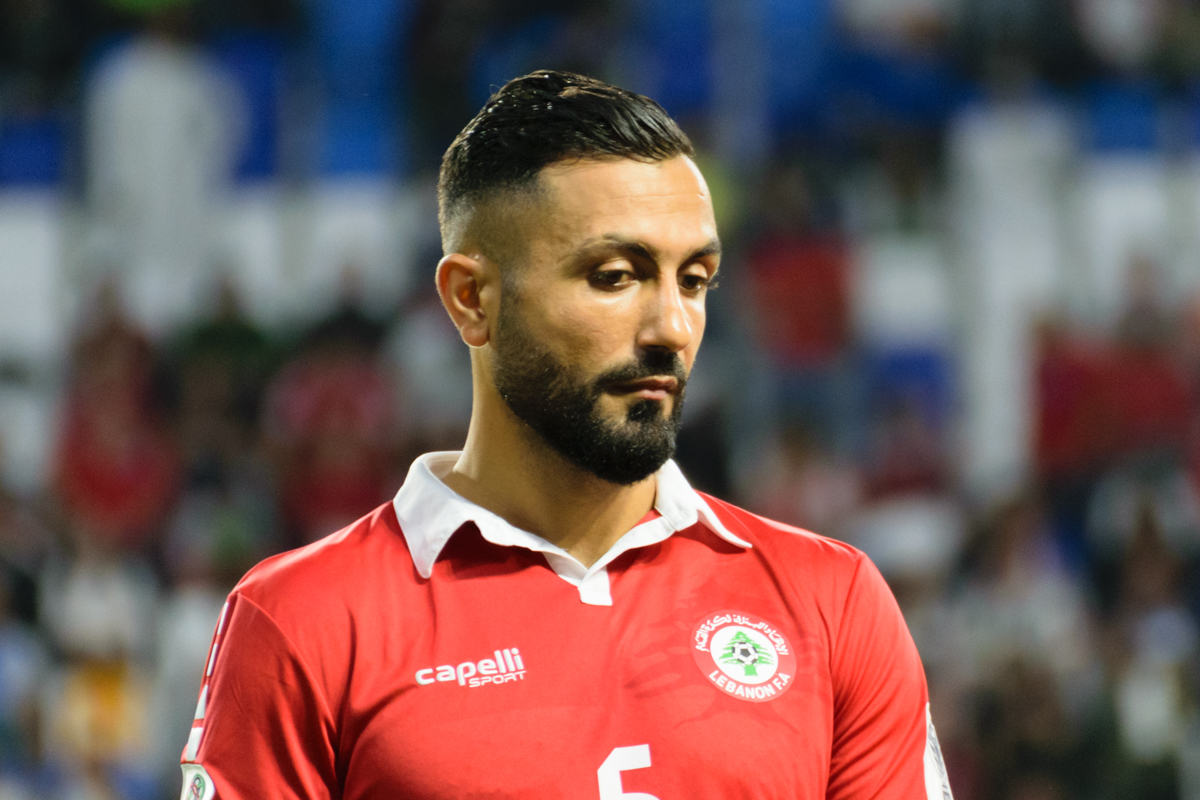 Joan Oumari at the Asian Cup 2019